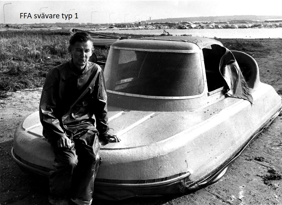 Einar Bergström and his Hovercraft FFA type 1, ca 1972